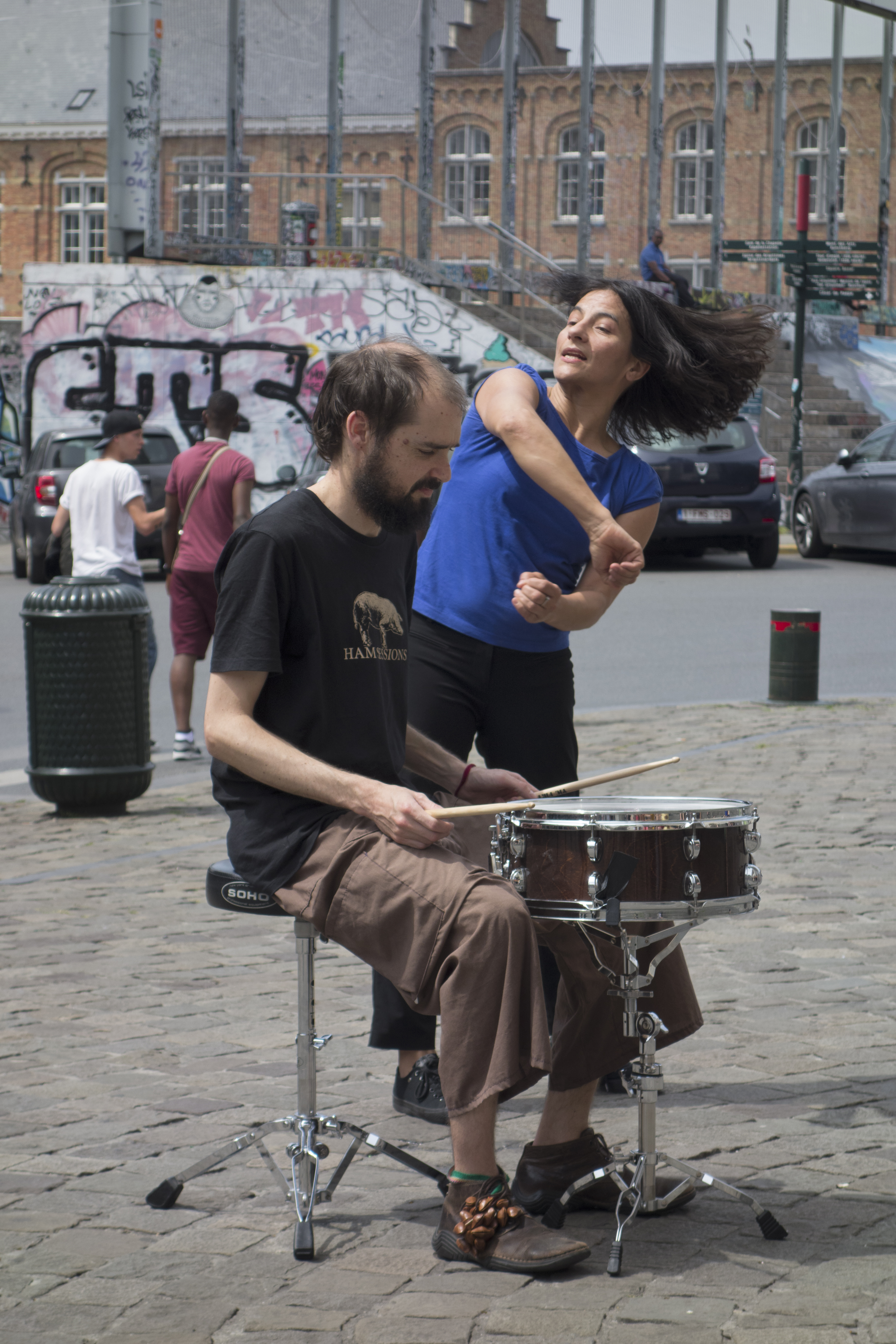 Performance of 'Two Women and a Drummer' within the framework of the project 'In Search for Akarova' at Kapellemarkt / Place de la Chapelle, Brussel / Bruxelles. Choreographers: Johanne Saunier, Ine Claes. Drums: Joâo Lobo. Performers: Joâo Lobo (left), Johanne Saunier (right).